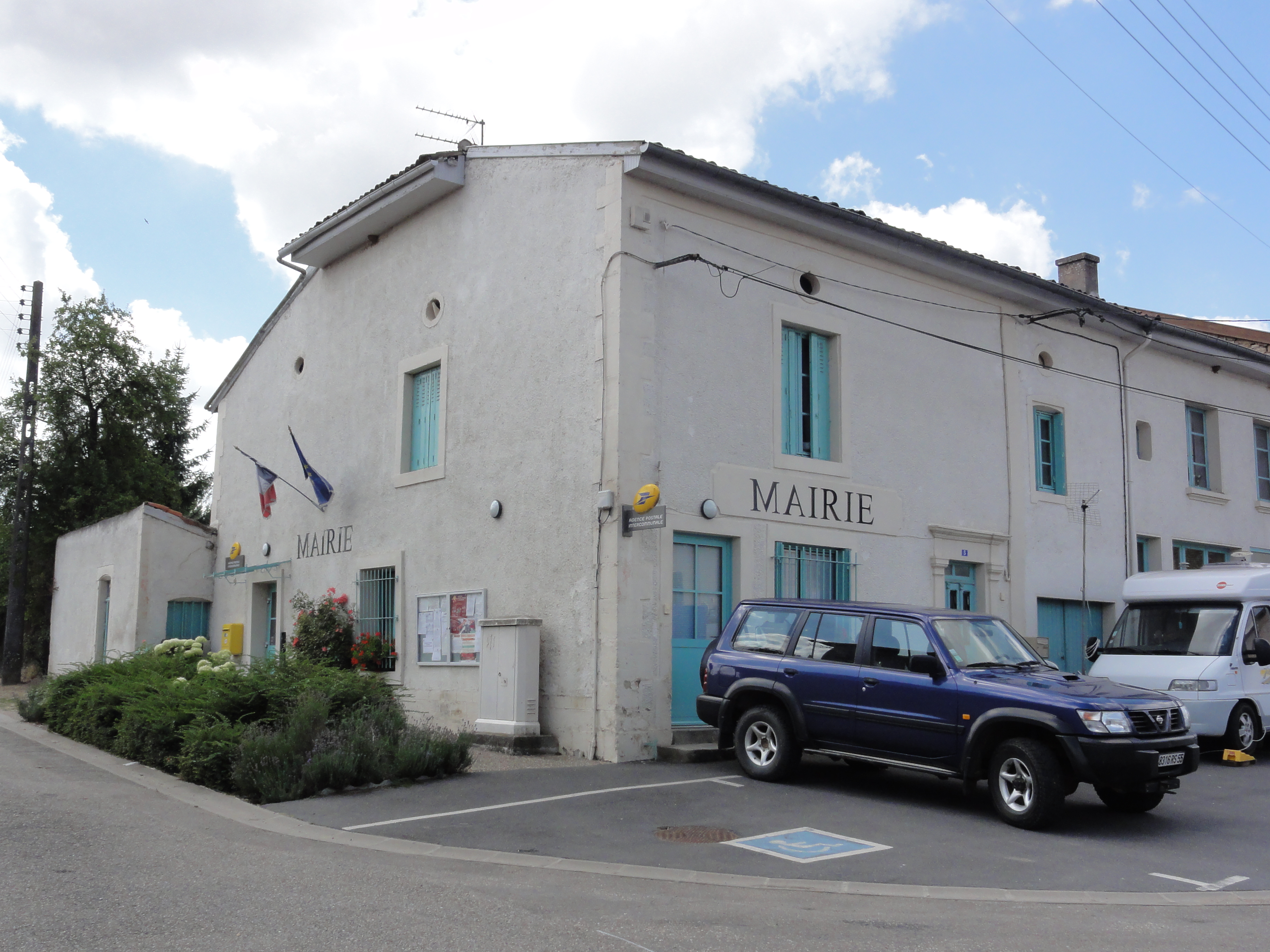 Saint-Laurent-sur-Othain (Meuse) mairie